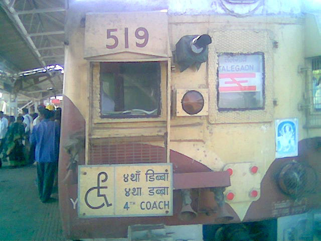 pune local